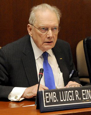 Luigi R. Einaudi at an international conference